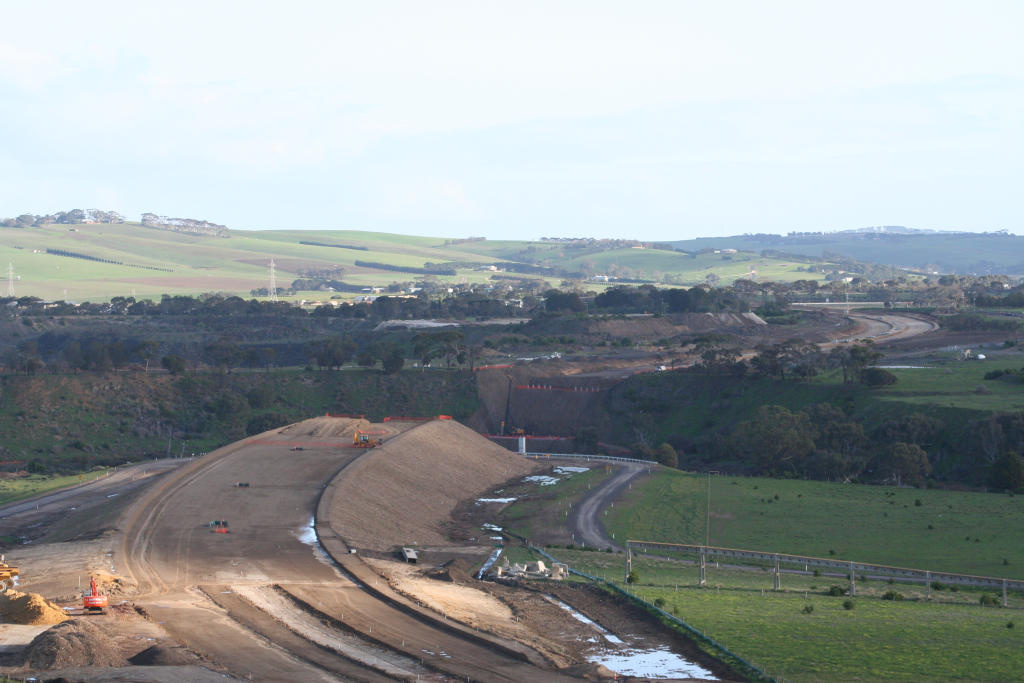 Geelong Bypass crossing of the Moorabool River under construction at Fyansford